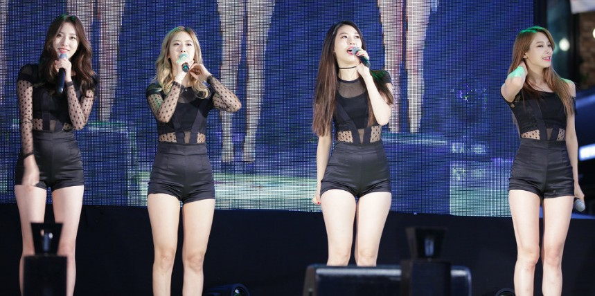 BESTie at Pyeongchon Cultural street Festival, 18 September 2015. Left to right: Haeryung, Hyeyeon, Dahye and UJi.